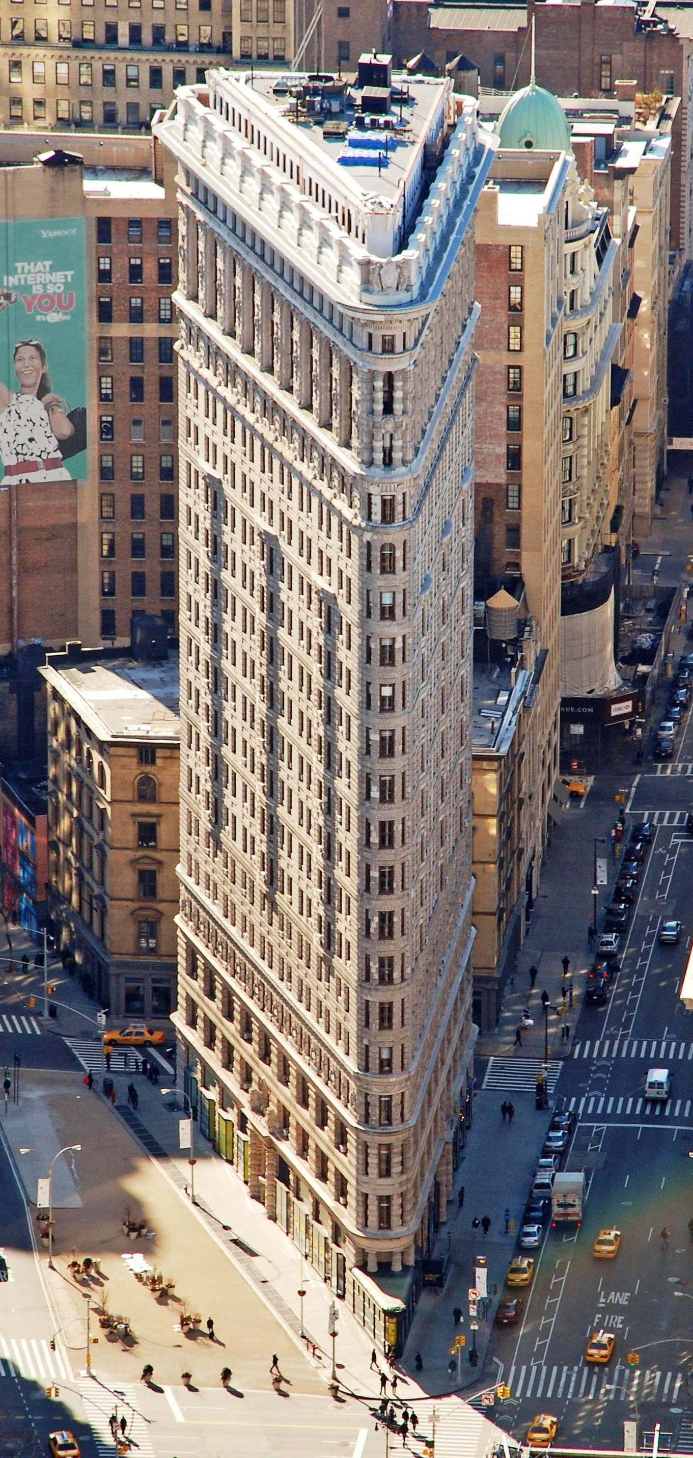 Flatiron Building (formerly the Fuller Building), Manhattan, New York.